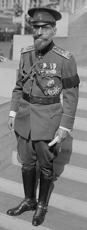 Prime Minister of Montenegro Anto Gvozdenović (1853-1935)